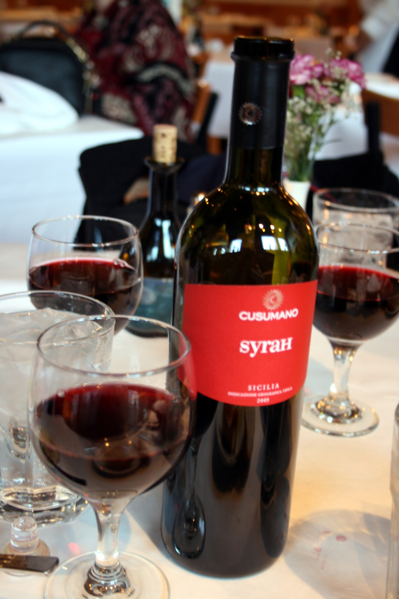 A glass of Italian Syrah wine from Sicily